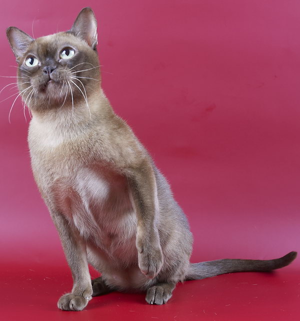 Acrocats Sean Townsend. Champagne burmese cat of extreme contemporary site.